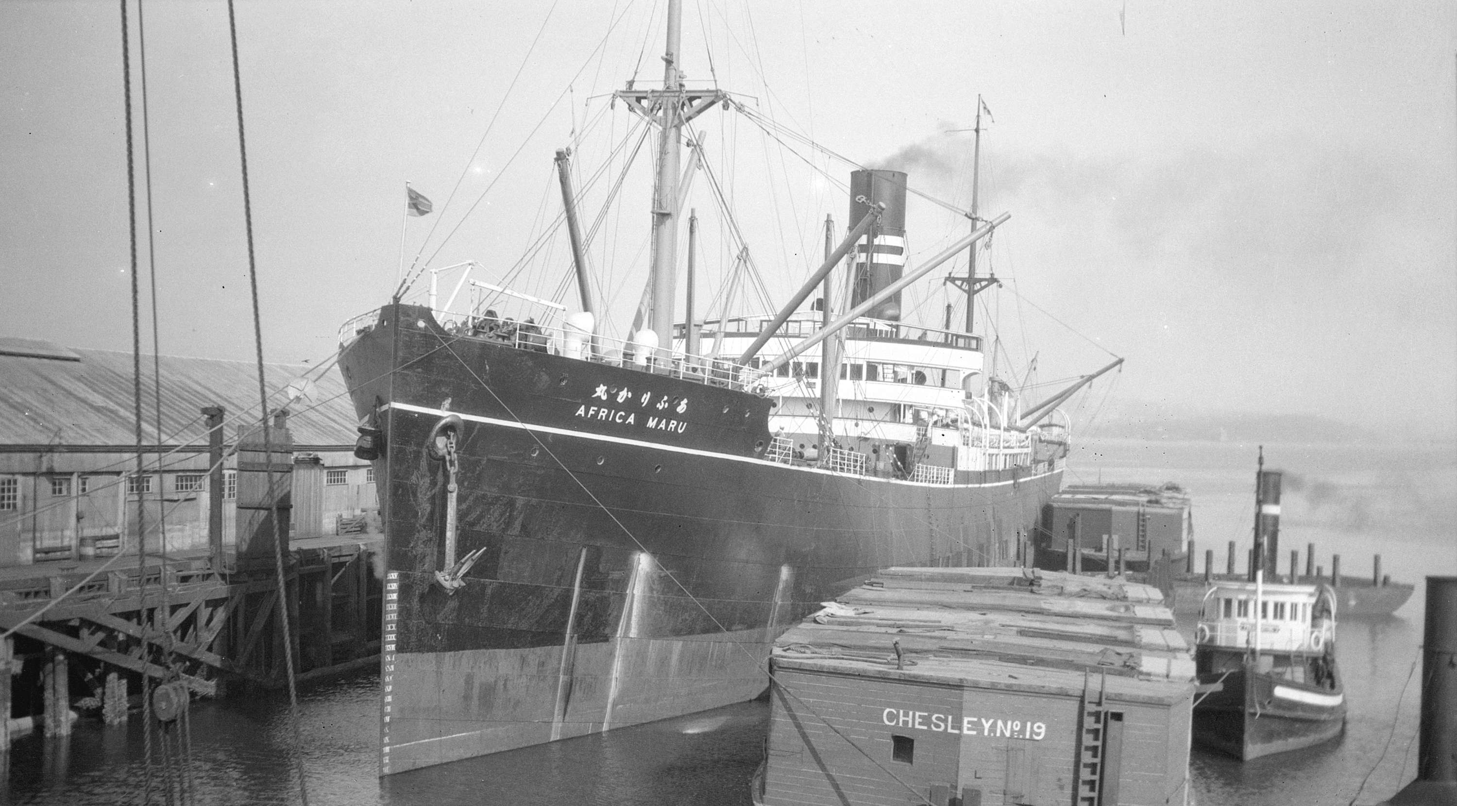 SS "Africa Maru" moored in the port of Vancouver, Canada, photo by Walter E. Frost. Taken at an uncertain date, but before 1949.